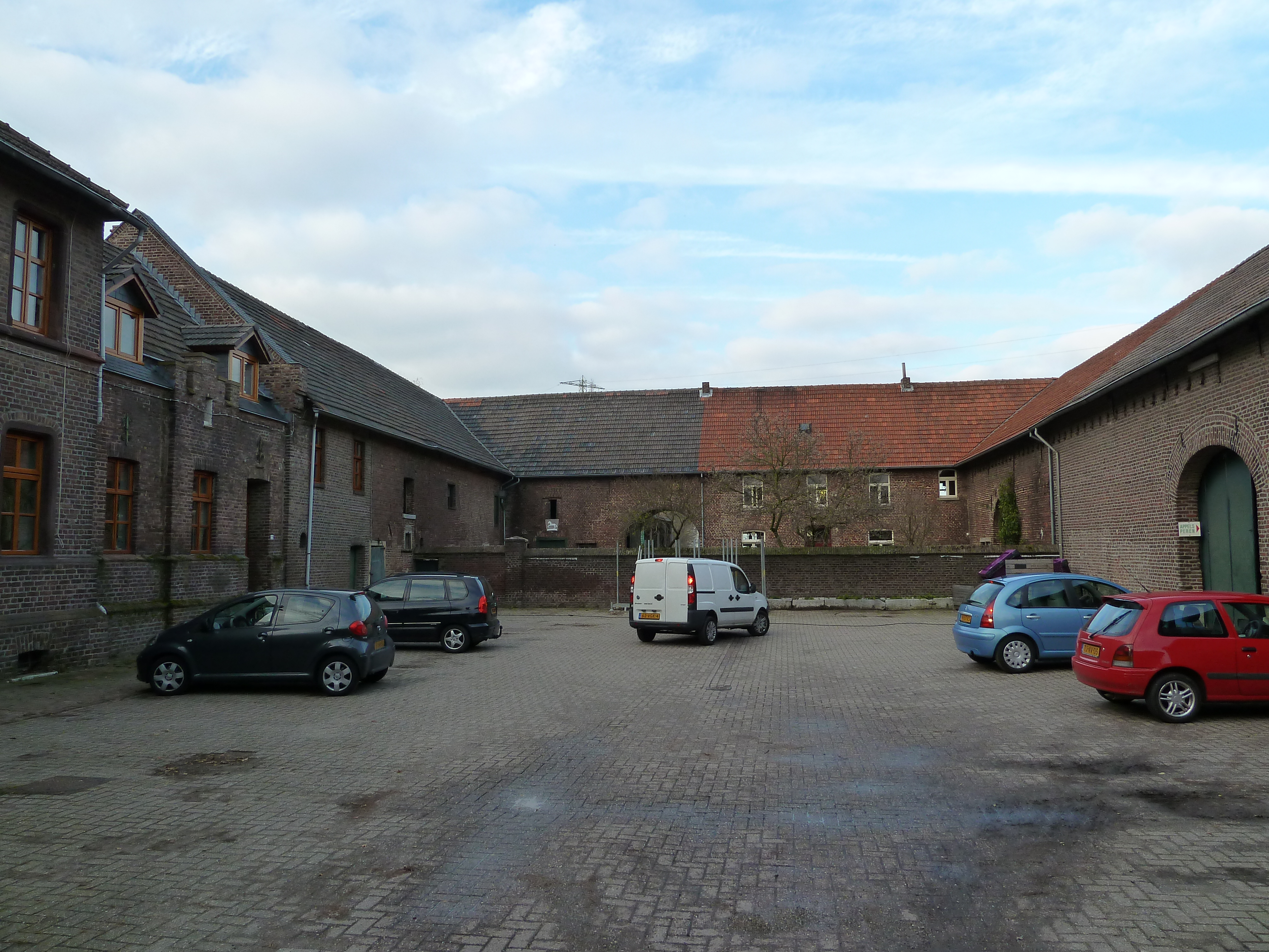 Wijnstraat 21, Simpelveld, Limburg, the Netherlands